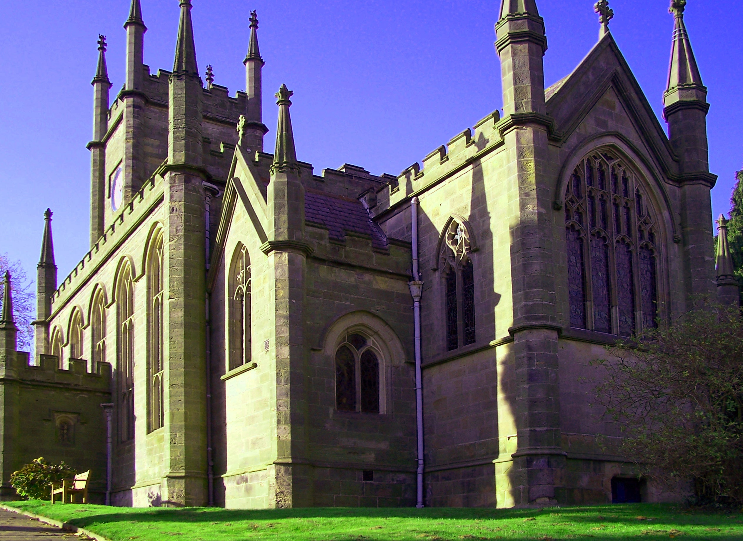 St Matthew's parish church, Darley Abbey, Derby, England, seen from the southeast